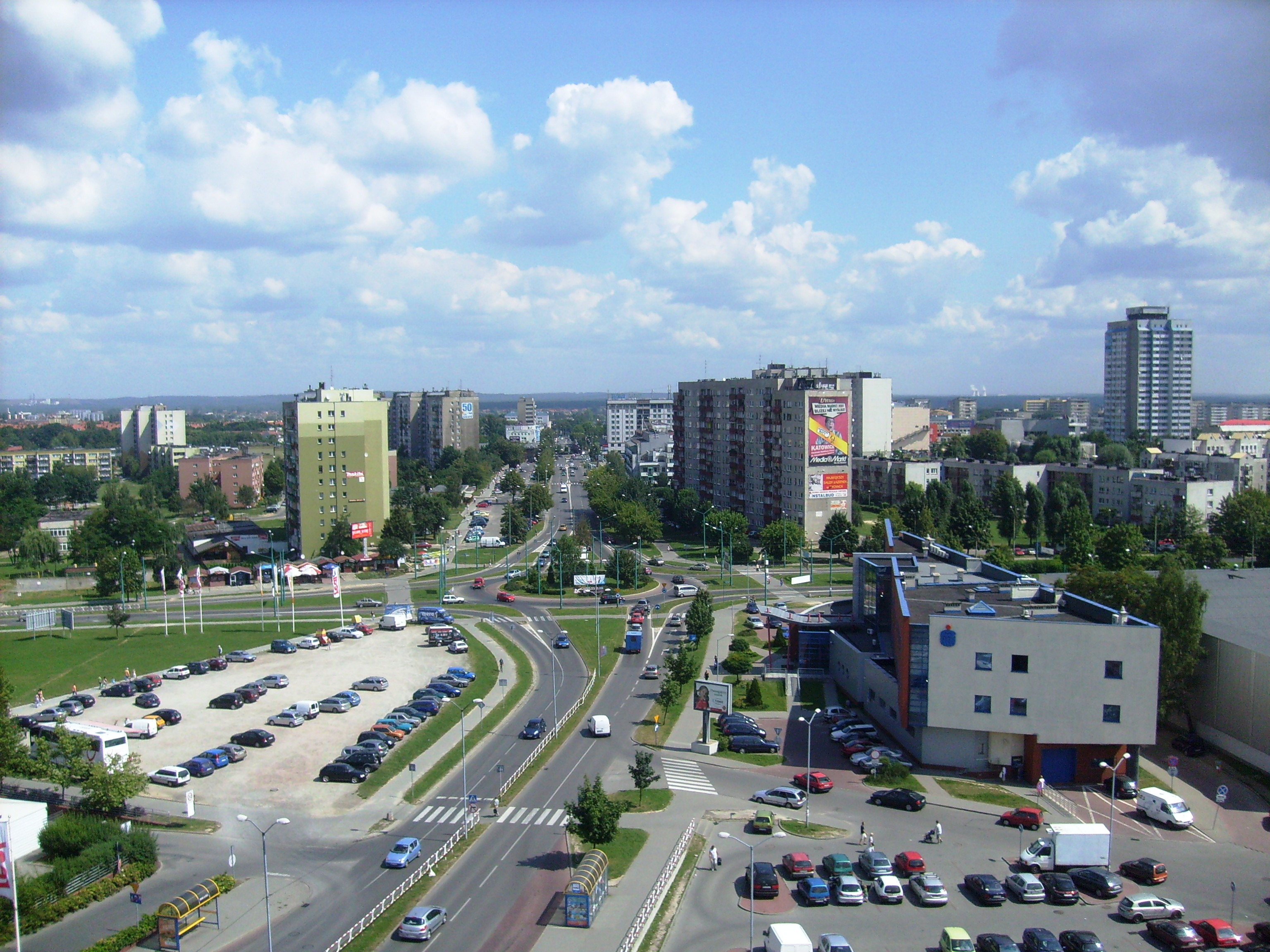 Panorama Tychy